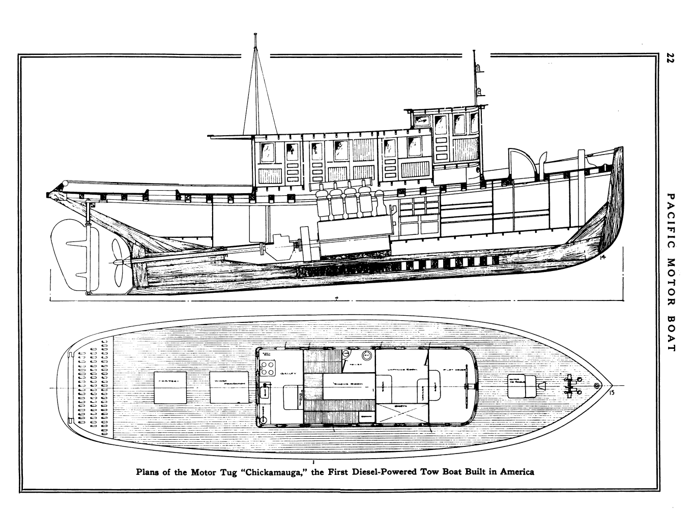 From December 1915 issue of Pacific Motor Boat Magazine